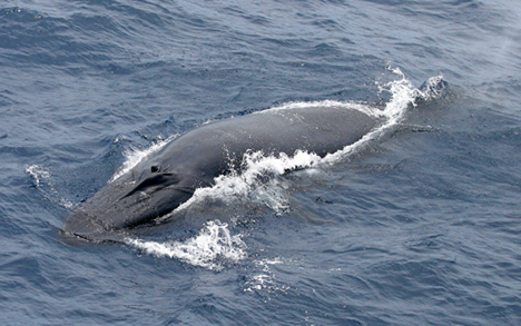 Photo of Bryde's whale at surface